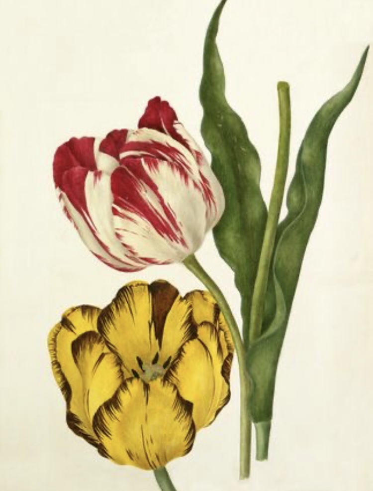 Caroline Maria Applebee, Tulipa the Claude and Tulipa Duke of Sutherland, watercolour